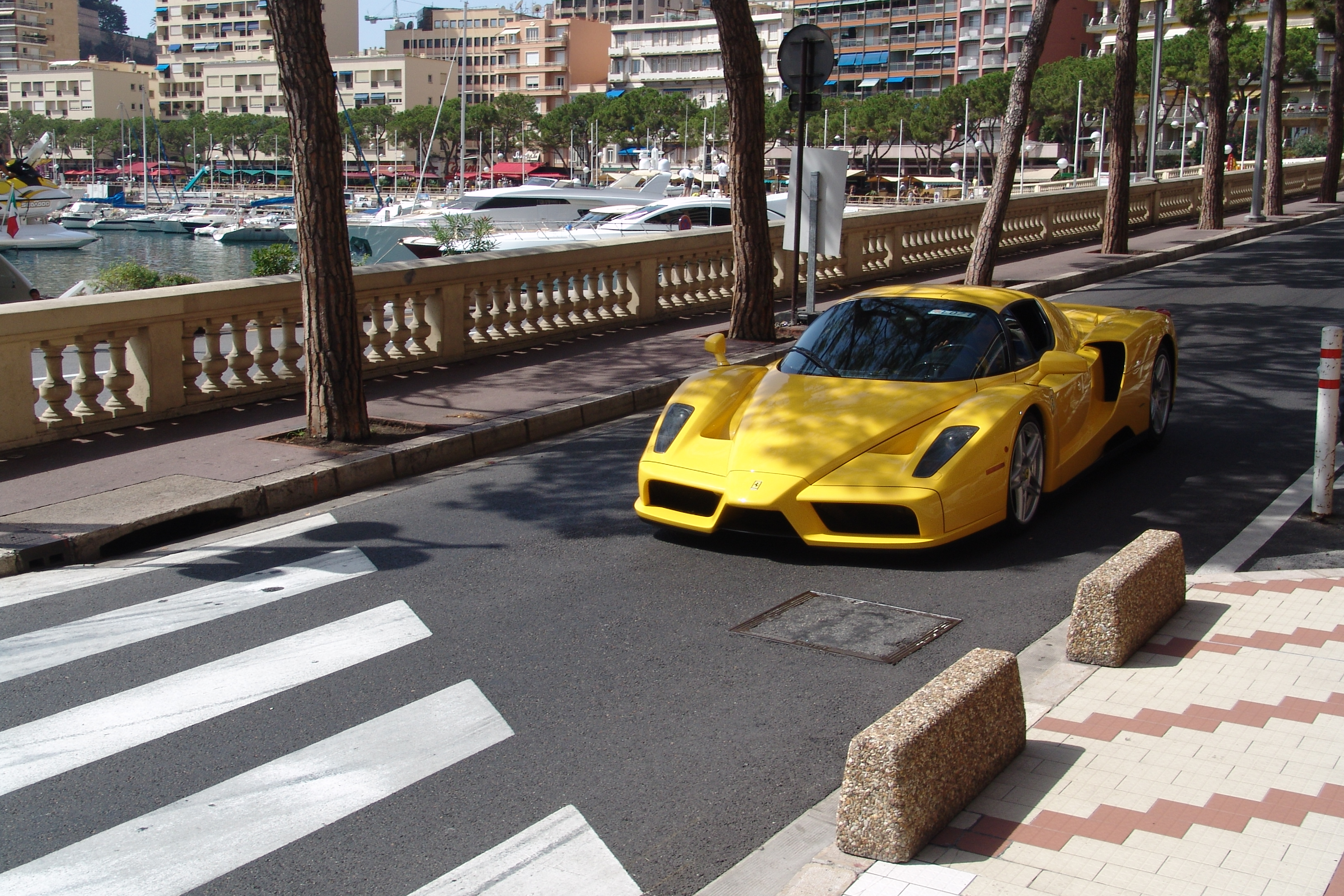 A yellow Ferrari Enzo, photographed in Monaco